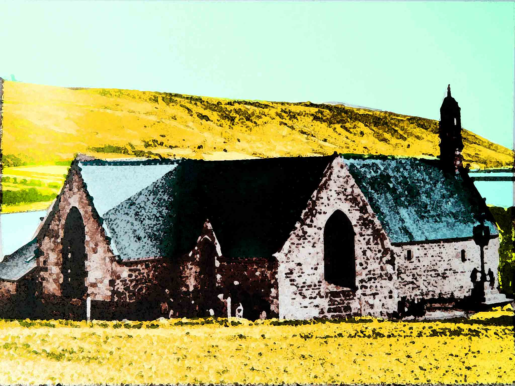 St Adian Chapel Plougastell Daopulaz